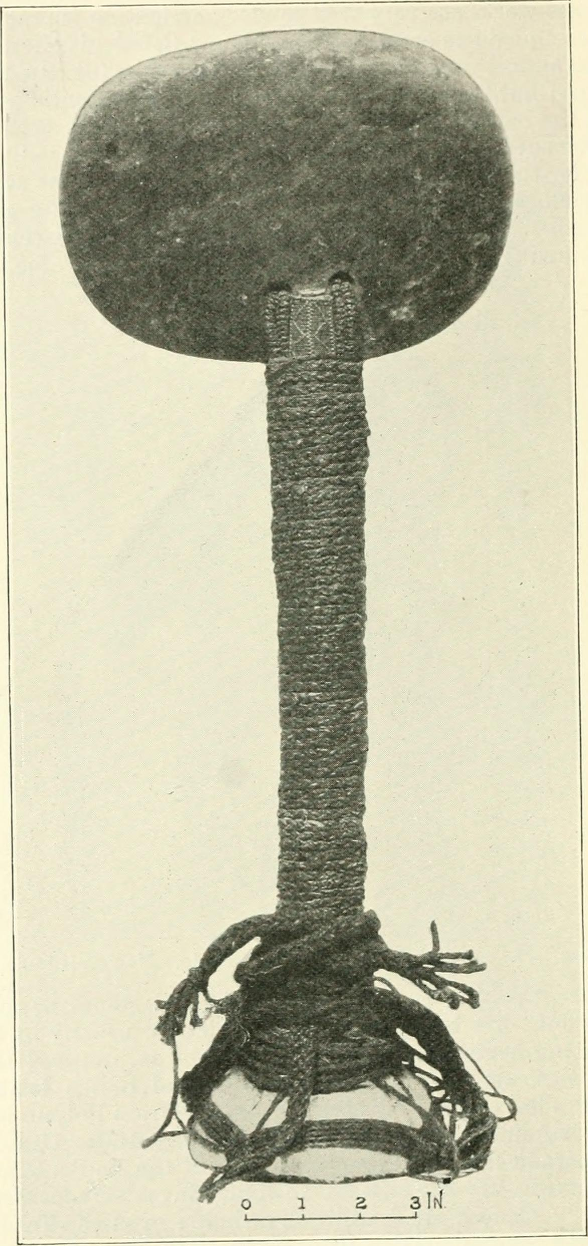 Title: Handbook to the ethnographical collections Year: 1910 (1910s) Authors: British Museum. Dept. of British and Mediaeval Antiquities and Ethnography Joyce, Thomas Athol, 1878-1942 Dalton, O. M. (Ormonde Maddock), 1866-1945 Subjects: Publisher: (London) : Printed by order of the Trustees Text Appearing Before Image: Fi(i 101.—Working-adze with jade blade. New Caledonia. into nets. Cooking is performed by heated stones or locally inl)ots or shells, fire being procured by friction, usually l)y rubbinga stick along a groove. A mild intoxicant is prepared from the2)iper mcfJiifsficuni in Fiji, New Hebrides, and Banks Islands, l)utthe i^ractice has undoubtedly been introduced from Polynesia. Betelchewing is found as far east as Santa Cruz (fig. 100). Cannibalismoccurs sporadically in all the groups except the Banks Islands andSanta Cru/ (fig. 2); the victims are almost invariably foemen killedin battle. Canoes are found everywhere; even the Tasmaniansconstructed canof-shaped rafts of Ijark. The commonest craft isthe dug-oul with single outrigger, which is Connd almost every- 124 OCEANIA Text Appearing After Image: Fig 102—Ceremonial axe with jade blade, the handle bound withflying-fox fur braid. New Caledonia. THE PAPUASIANS 125 where except in pari of the Solomon Ishands ; here fineh-madeplank-built canoes are found, often ornamented with shell inlay.Large double canoes are built in Fiji, New Caledonia, and NewGuinea ; these are furnished with sails, and are capable of perform-ing considerable voyages. Thus pottery is traded along the coastof New Guinea ; drums, arrows, and clubs from New Guinea toTorres Straits, &c. Various forms of currency are in use in different islands, butstrings of small shell discs are universal; other forms are whalesteeth (Fiji); flying-fox-fur braid (New Caledonia); mats (NewHebrides) ; arrows (Torres Island); feathers (Santa Cruz); por-poise-teeth and shields (Solomon Islands); stone axes (NewGuinea).